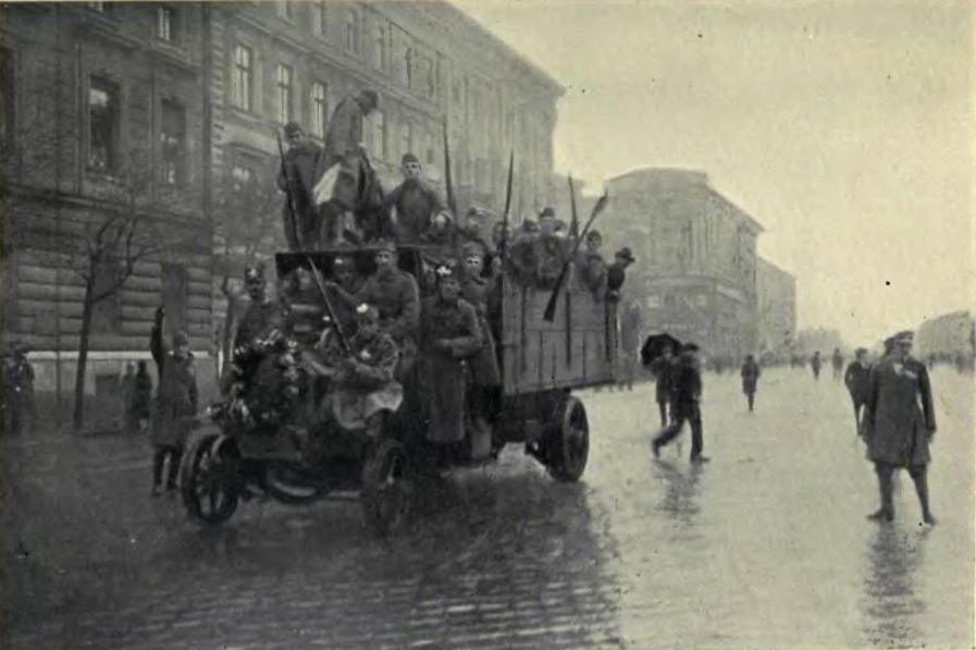 Red soldiers in Budapest